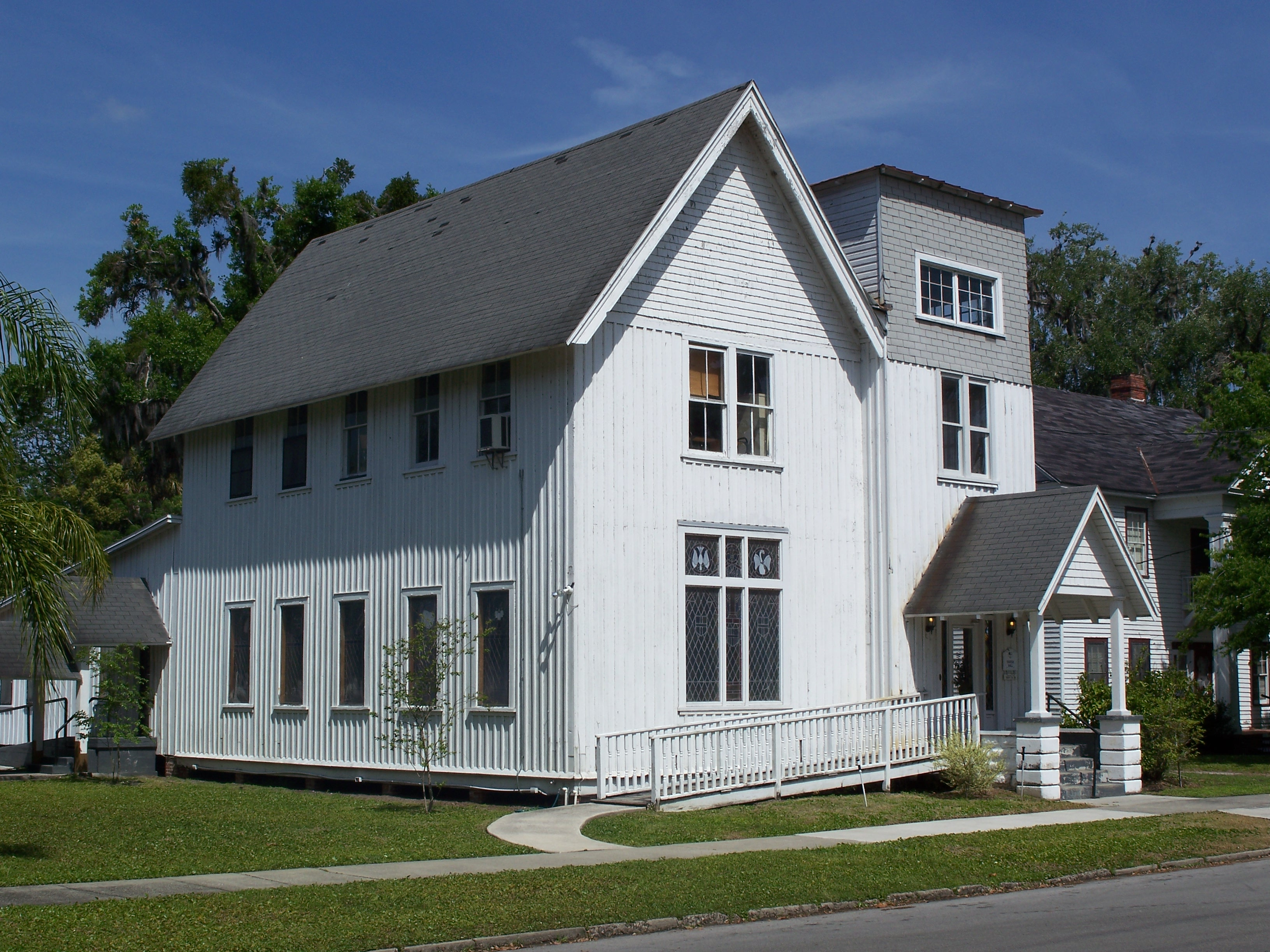 Parish hall of St. Mark's Episcopal Church, in Palatka, Florida